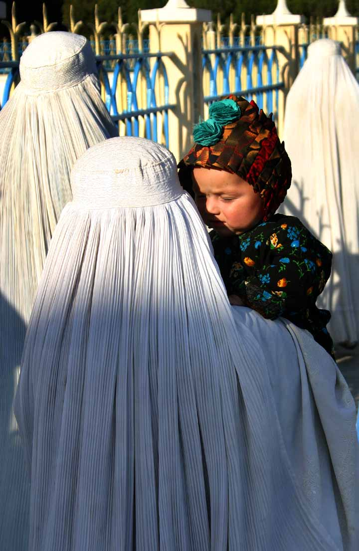 Women wearing traditional Afghan burqa in northern Afghanistan.